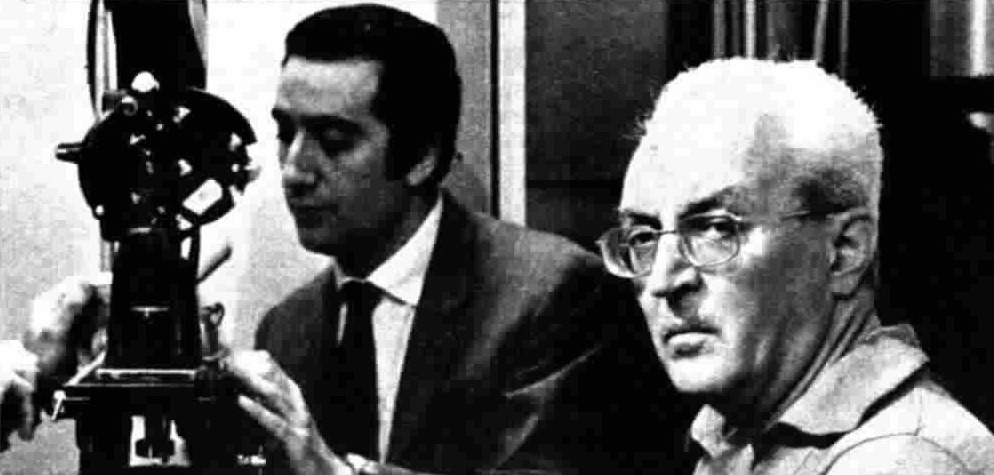 Italian director Paolo Nuzzi and writer Piero Chiara